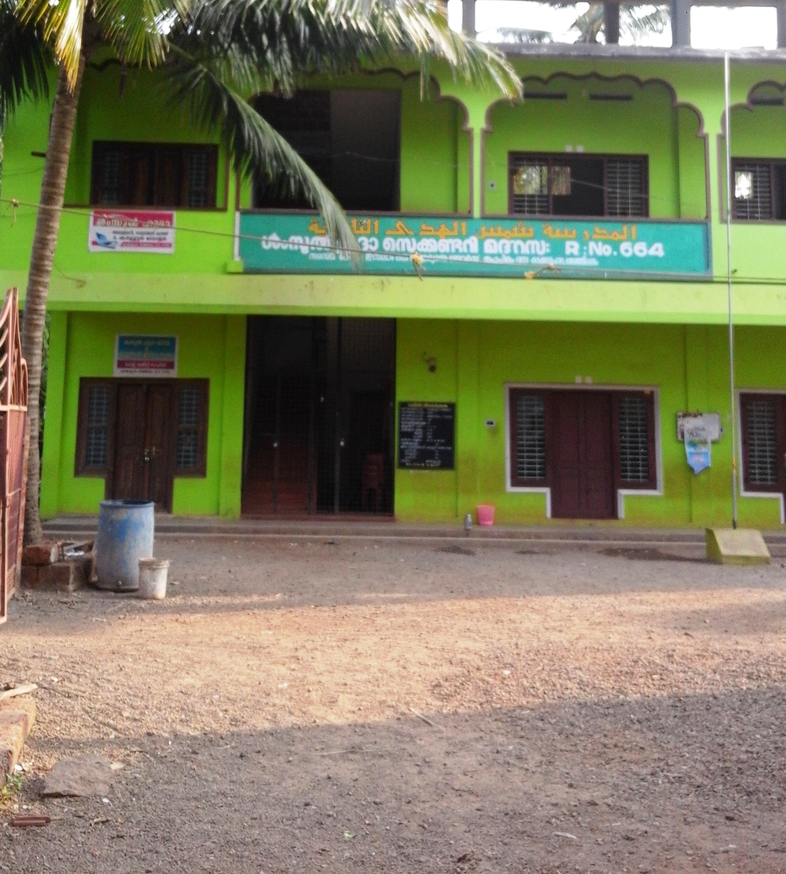 Tenhippalam, Malappuram District, Kerala, India